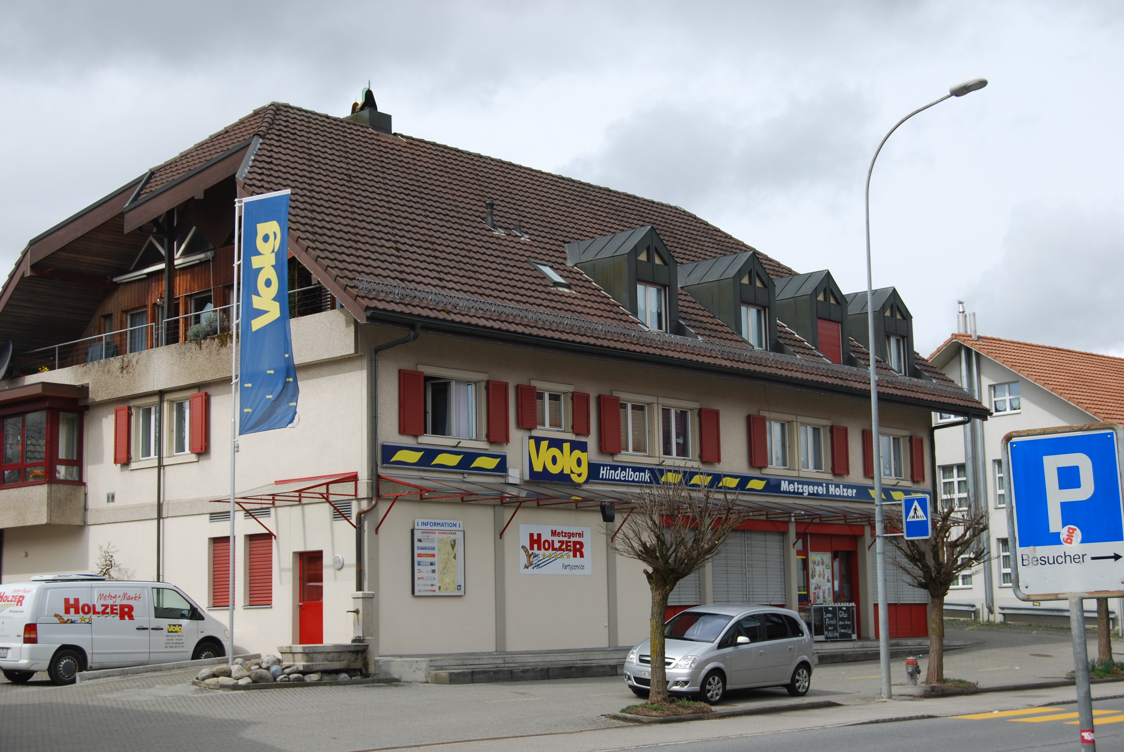 Volg supermarket at Hindelbank, canton of Bern, SwitzerlandEsperanto: Volg-supermerkato en Hindelbank, Kantono Berno, Svislando